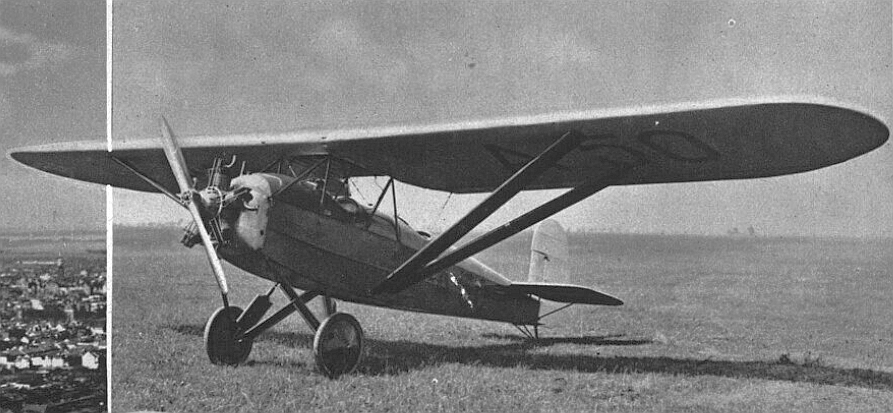 Walter NZ-60 and Hopfner HS-52.8